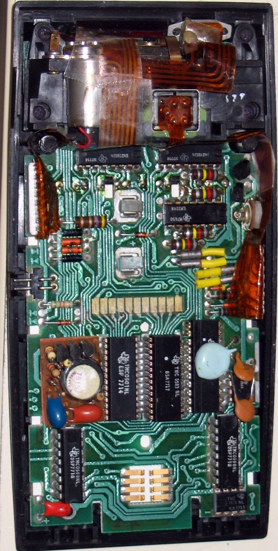 Mainboard of a TI-59, a programmable pocket calculator from 1977